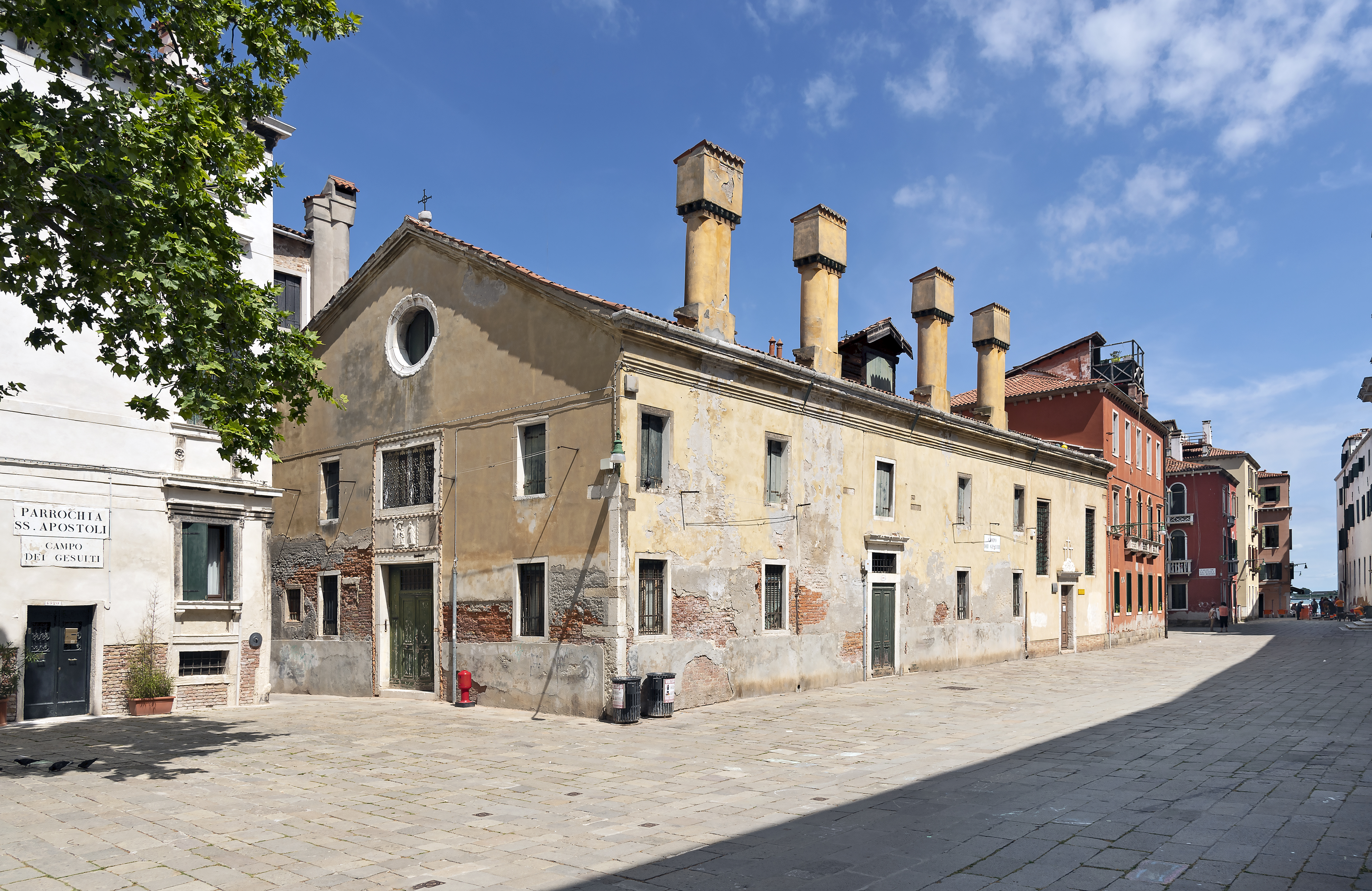 Oratorio dei Crociferi on Campo dei Gesuiti